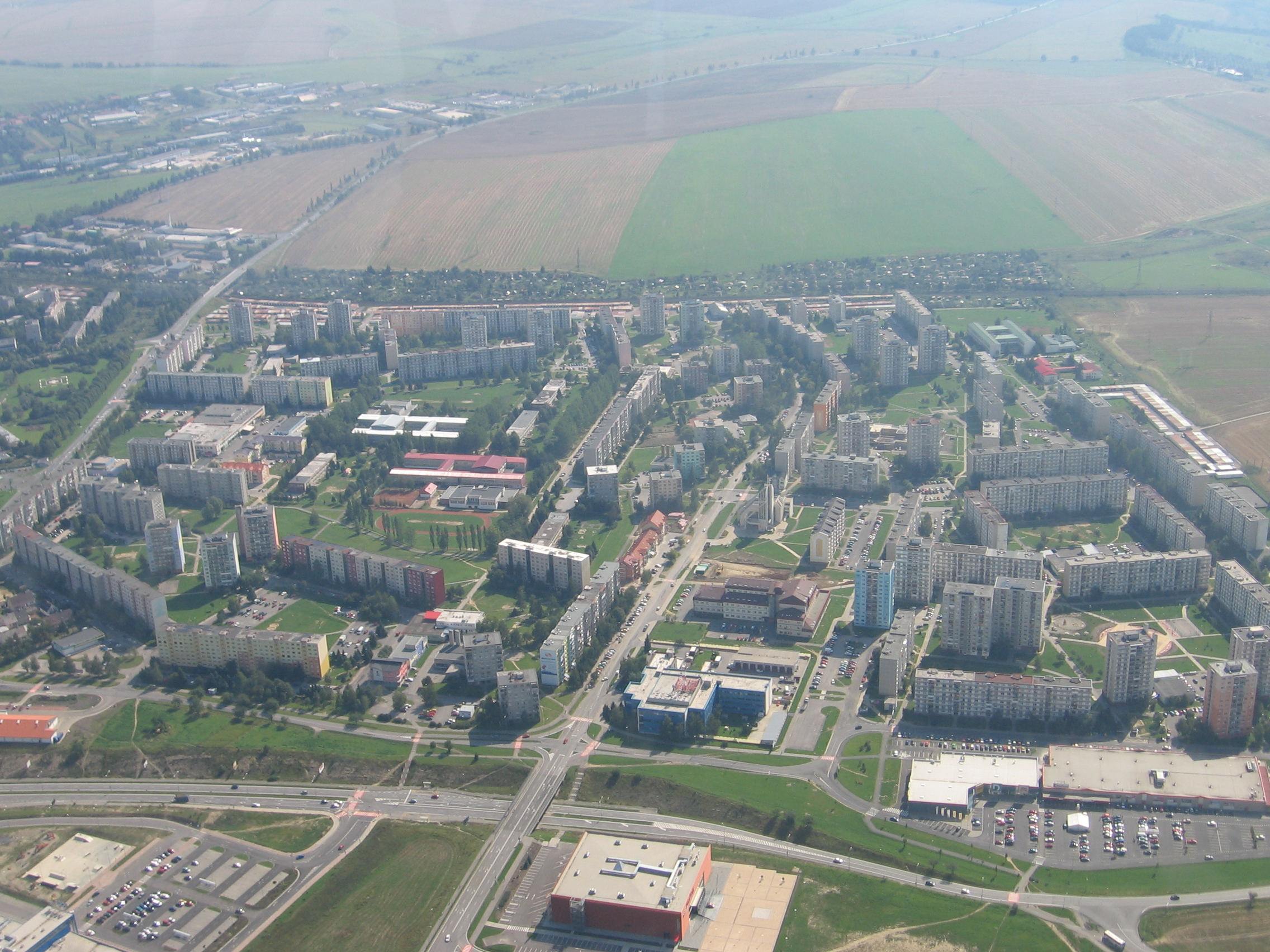 "Sídlisko Juh" in Poprad, Slovakia.